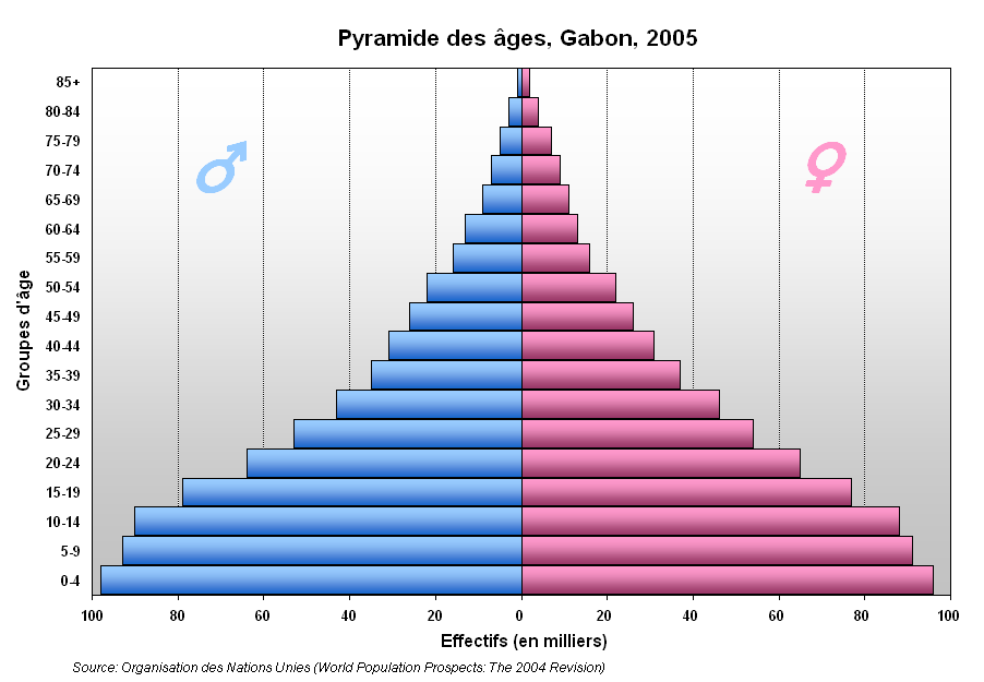 Gabon Population pyramid, 2005